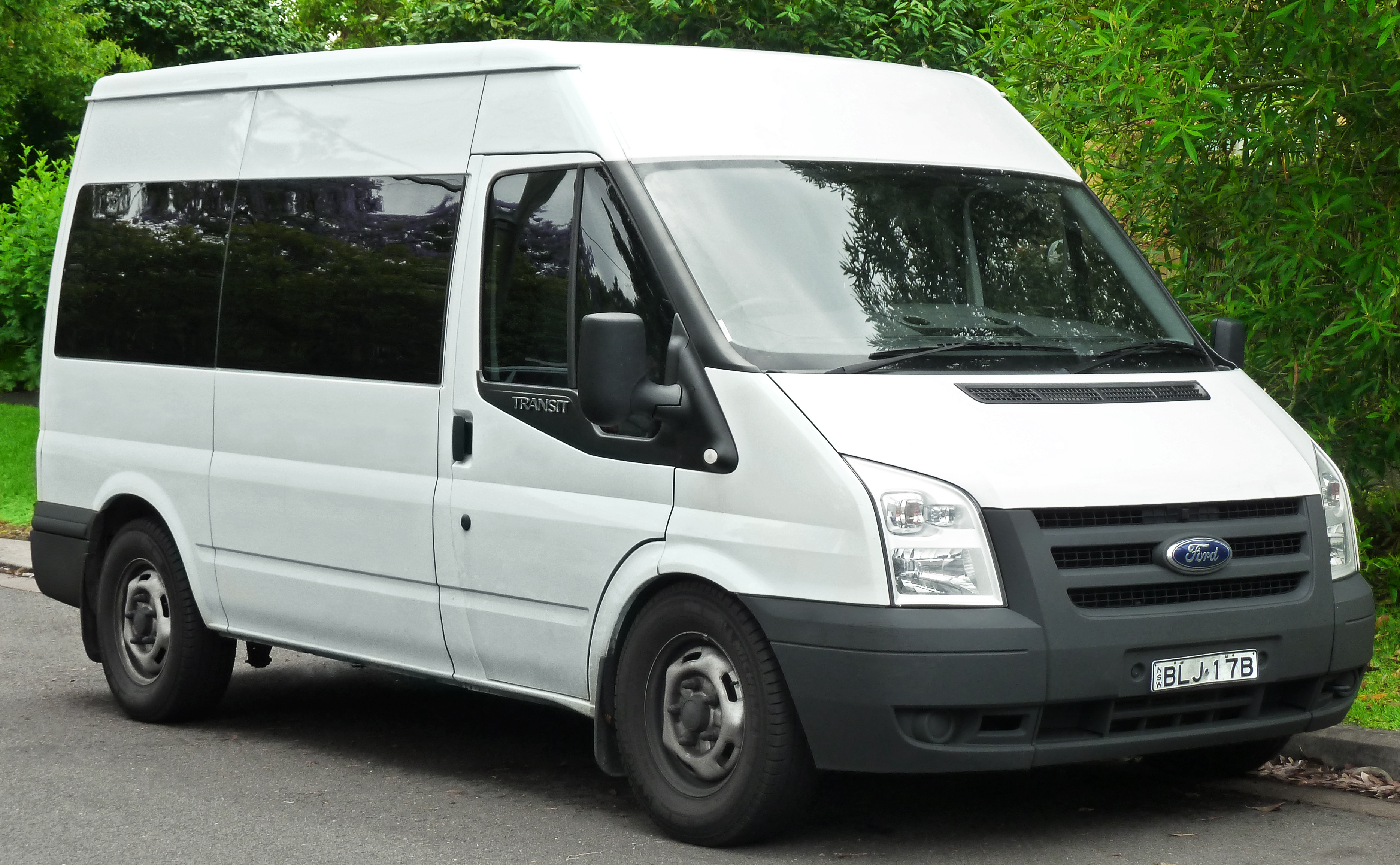 2006–2011 Ford Transit (VM) 140 T330 van. Photographed in Gordon, New South Wales, Australia.